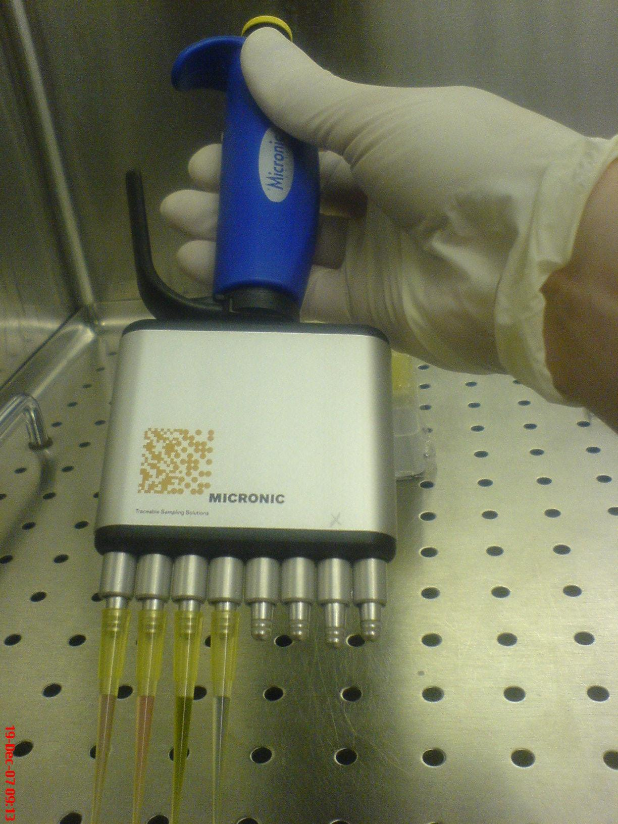 A picture showing a multi-channel Gilson micro-pipette